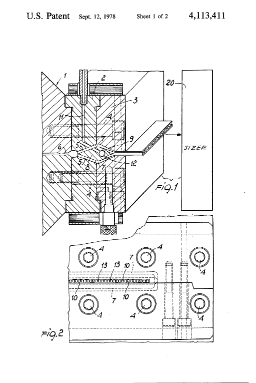 Brevetto per il processo cartonplast inventato dal dott. Marco Terragni nel 1974